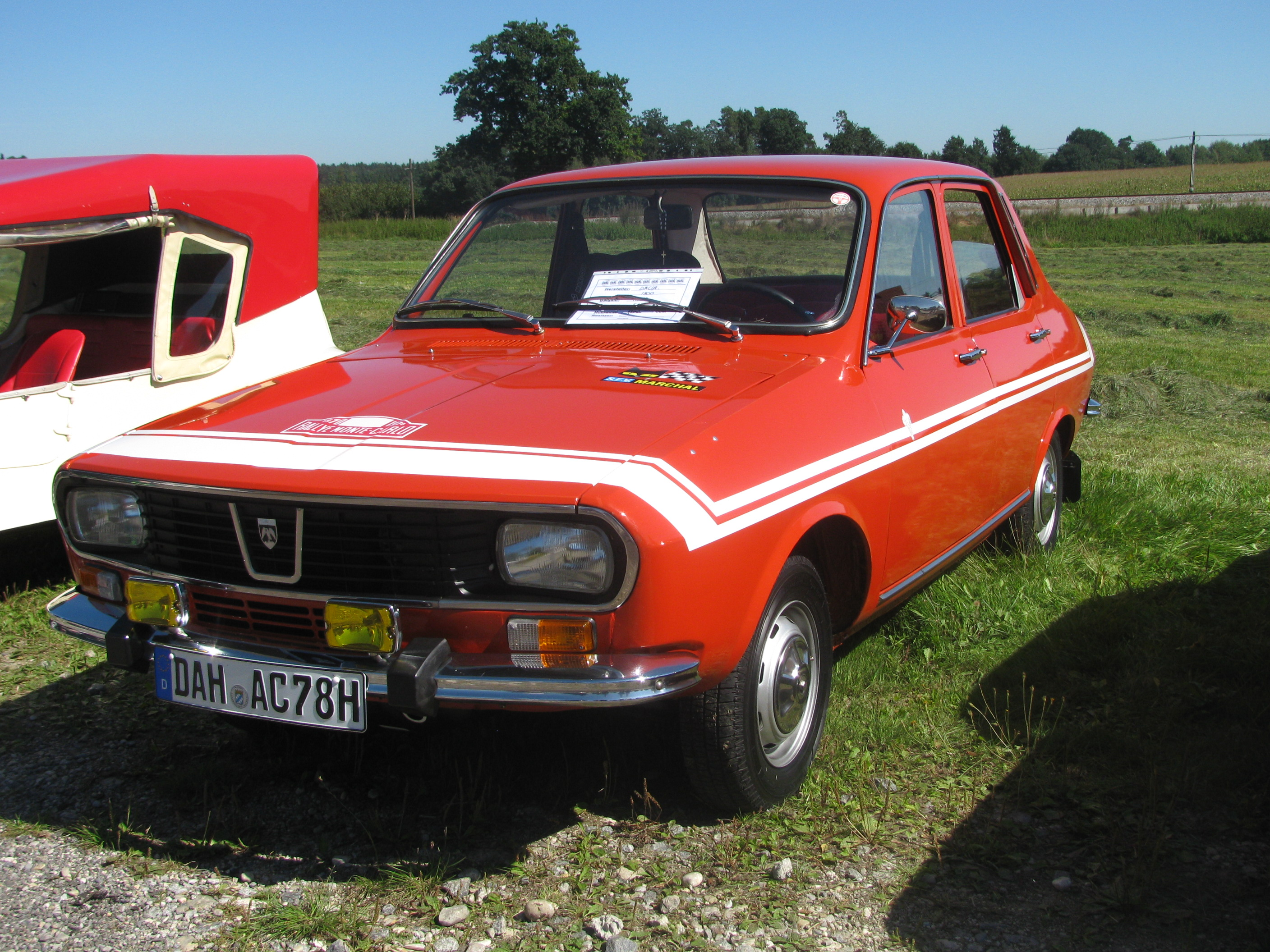 Dacia 1300 from 1977. 54 hp, 1 300 cm³. Bulldogtreffen 2012, Markt Indersdorf, Bavaria, Germany.